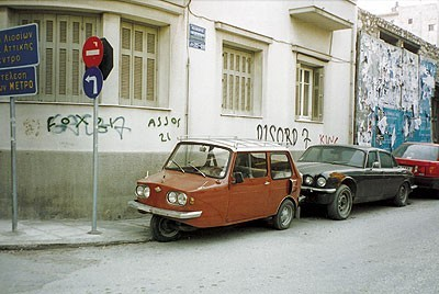 B.E.T. 500 (1973 model). Picture taken in a rather run-down area of Athens in 1995.